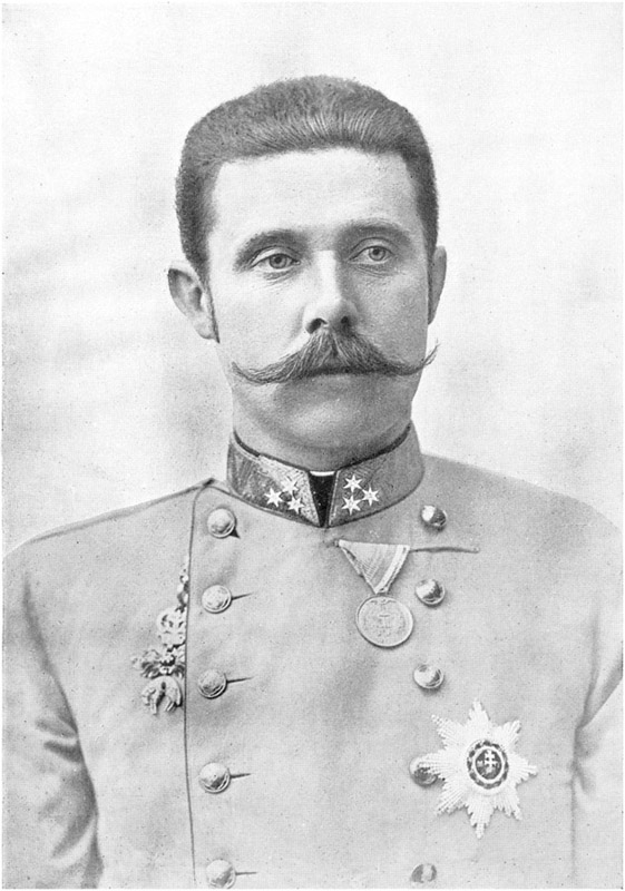 Archude Franz Ferdinand of Austria